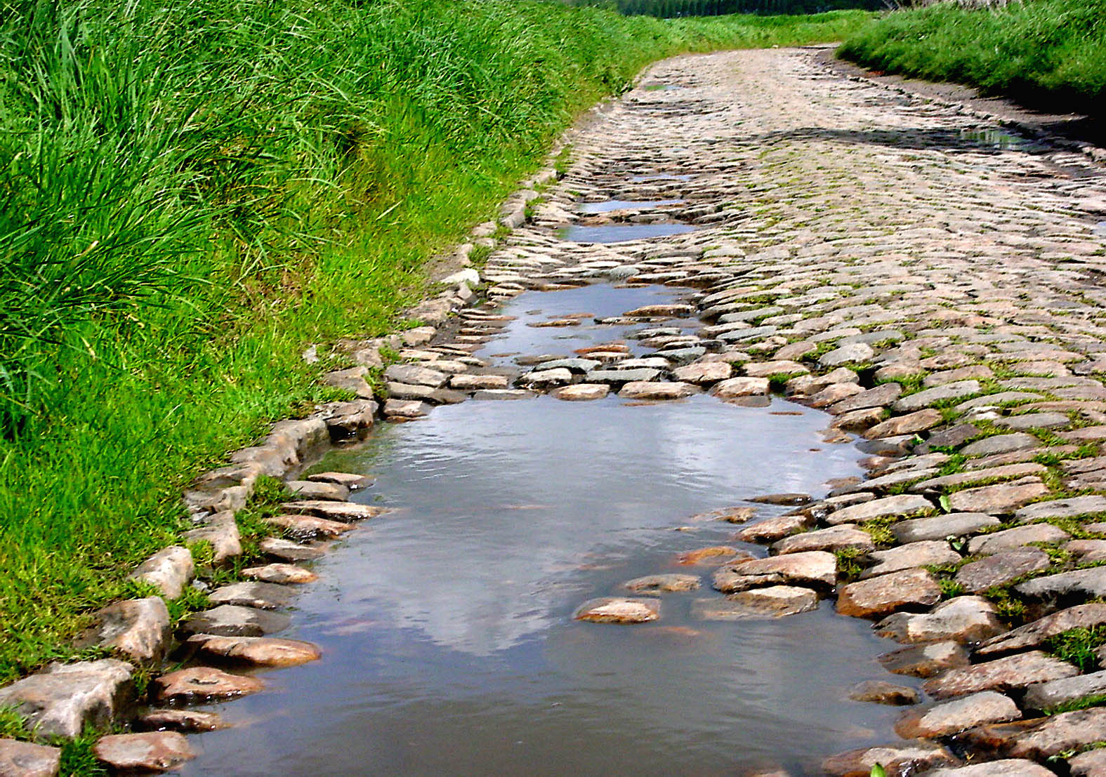 Cobblestone road in the north of France in Lesquin, near Lille.